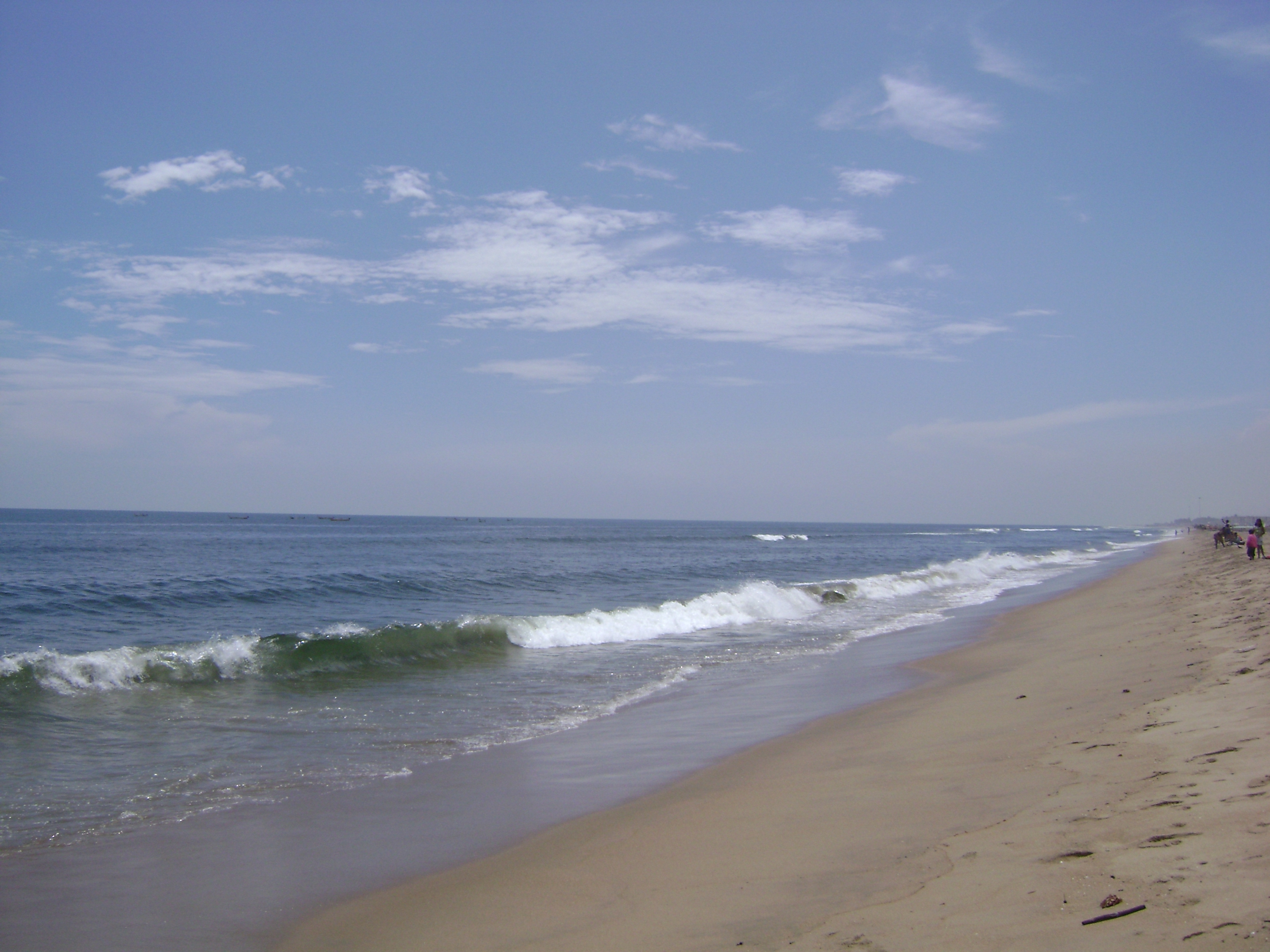 Marina Beach in Chennai